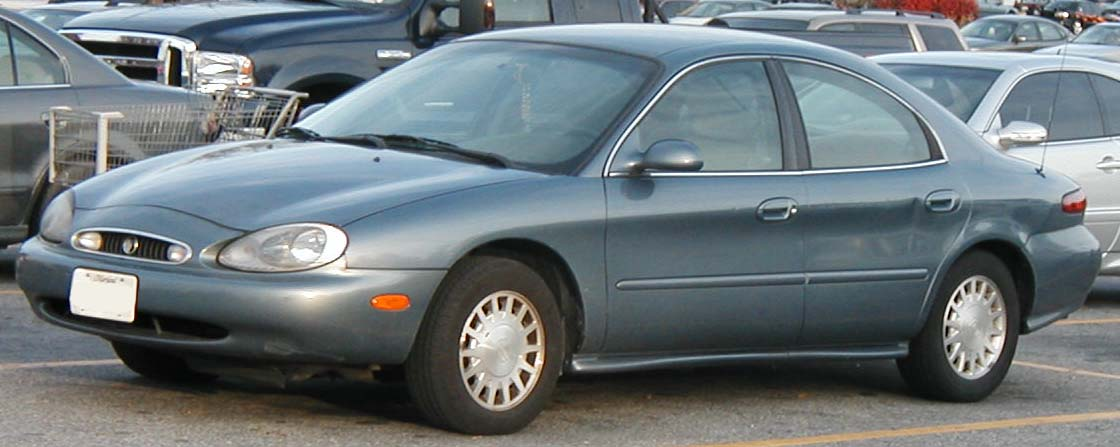 1996-1999 Mercury Sable photographed in USA.